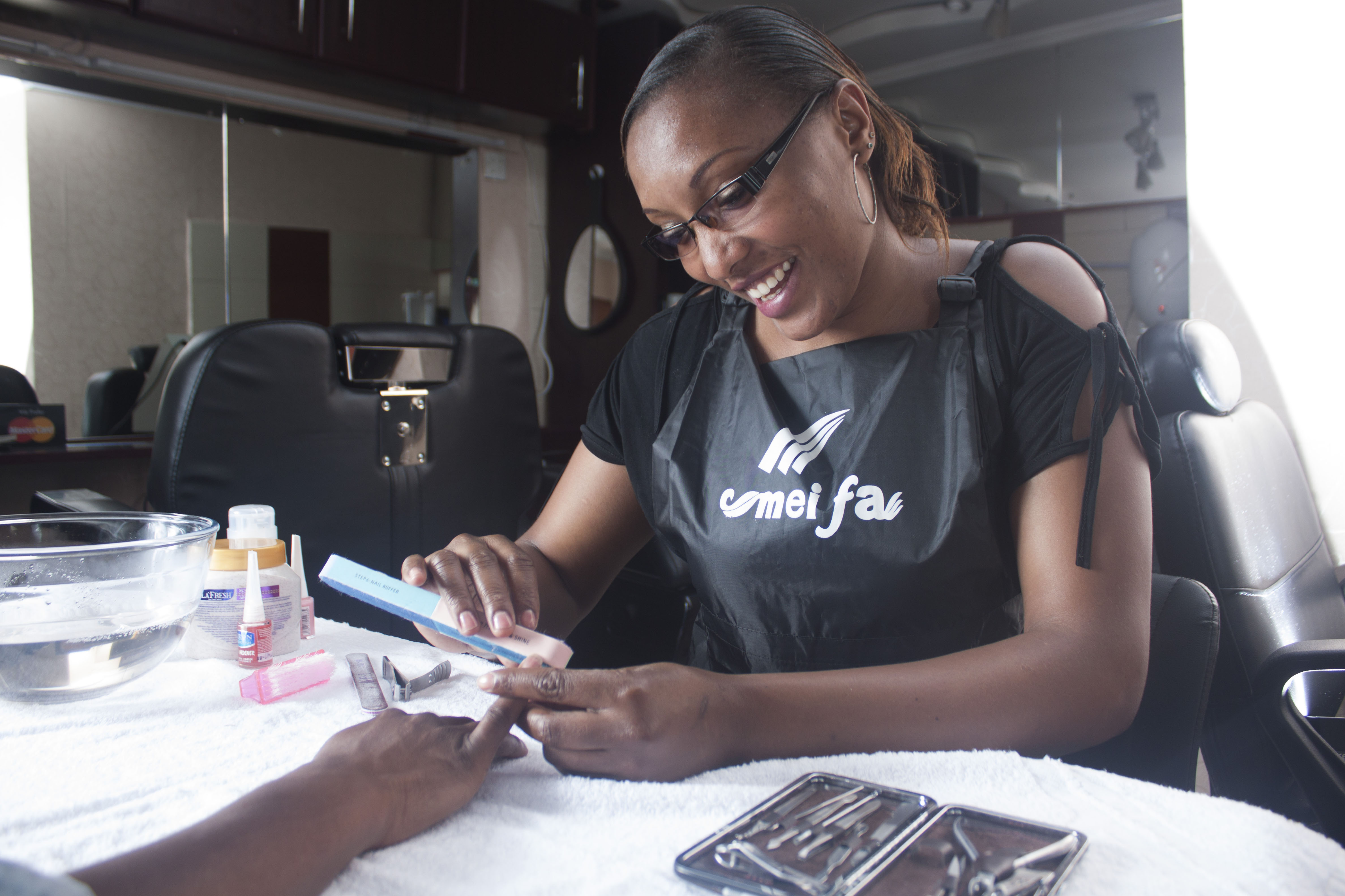 A salonist doing some pedicure for a client in a salon This is an image of "African people at work" from Kenya